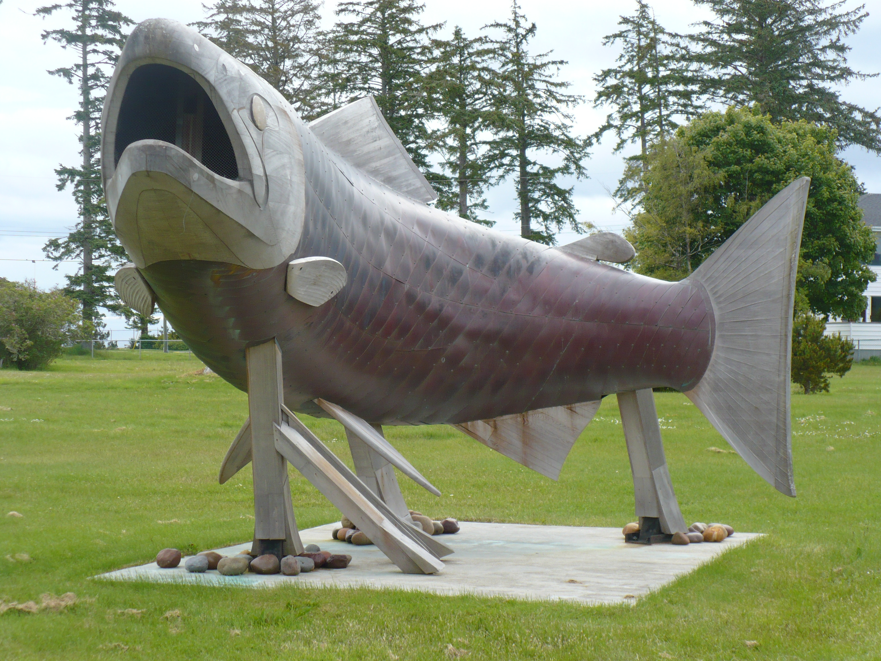 "Spirit of Sandspit" by Lon Sharp, erected Aug 30, 2002 outside the Sandspit Airport, Sanspit, BC.